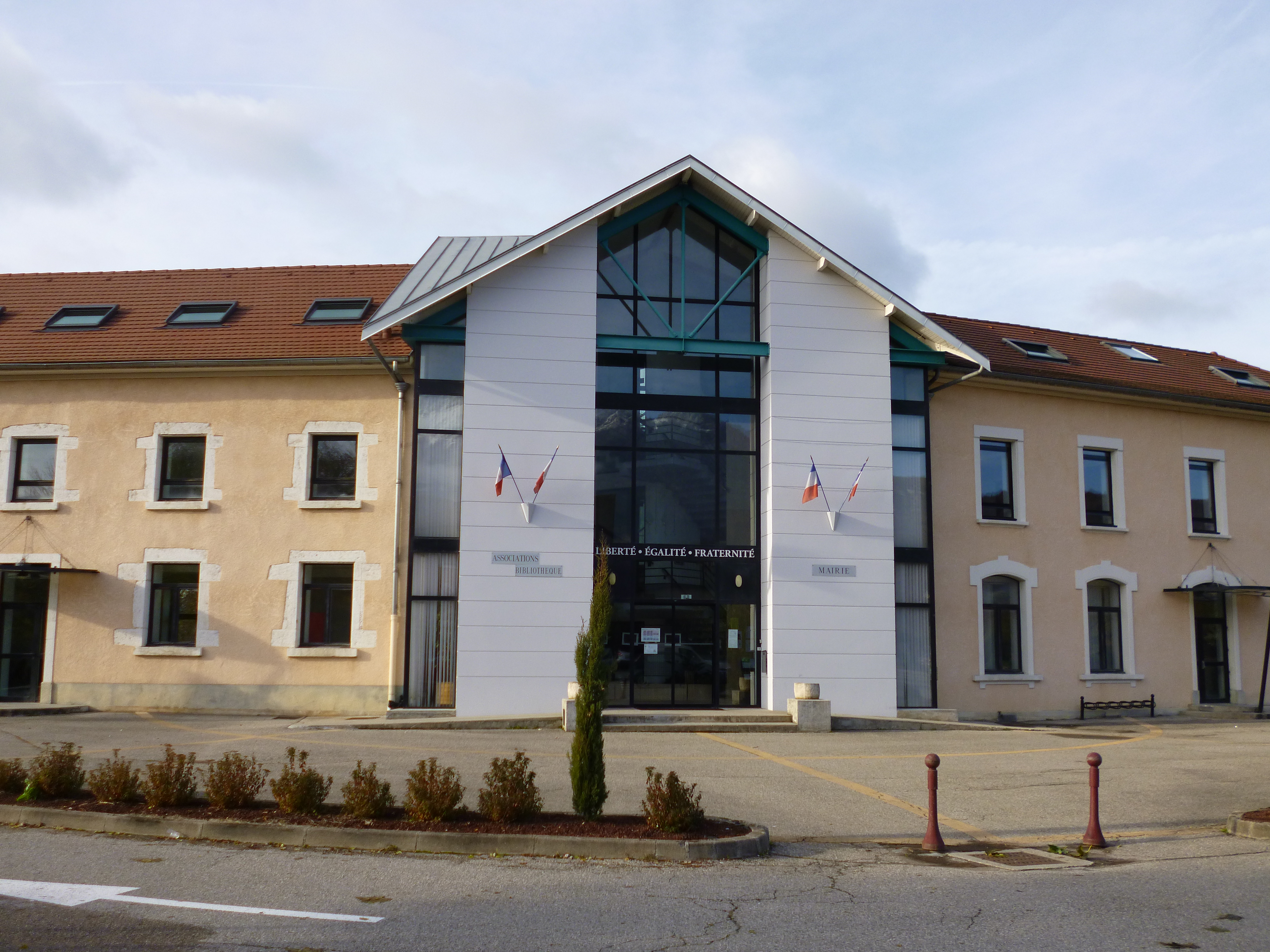 Town hall of Saint-Etienne-de-Crossey Isère, France November 2016